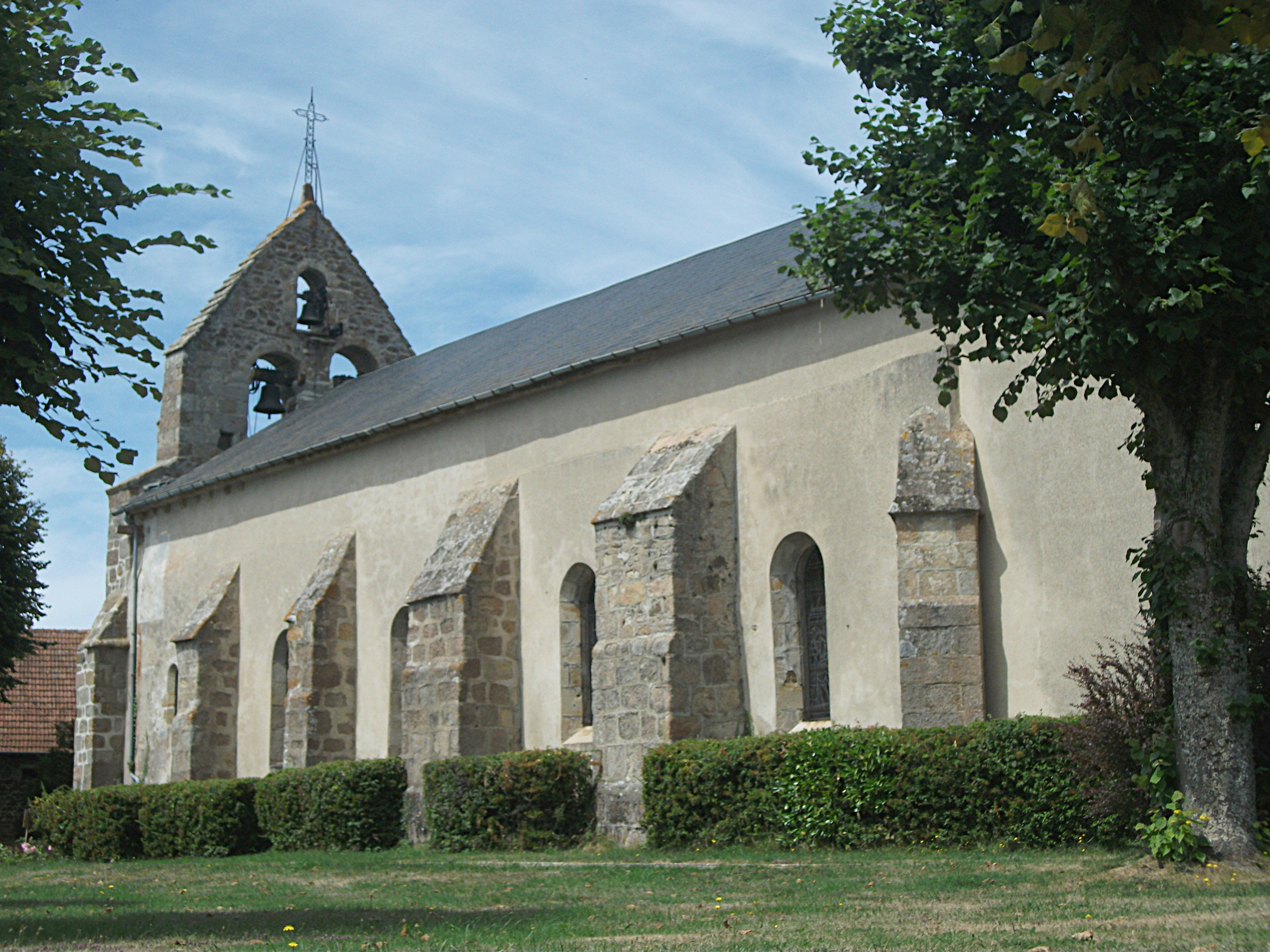 Church of La Crouzille, Puy-de-Dôme, Auvergne-Rhône-Alpes, France. [18873]